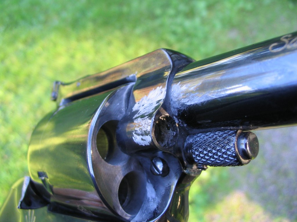 What happens when a hangfire decides it's time...